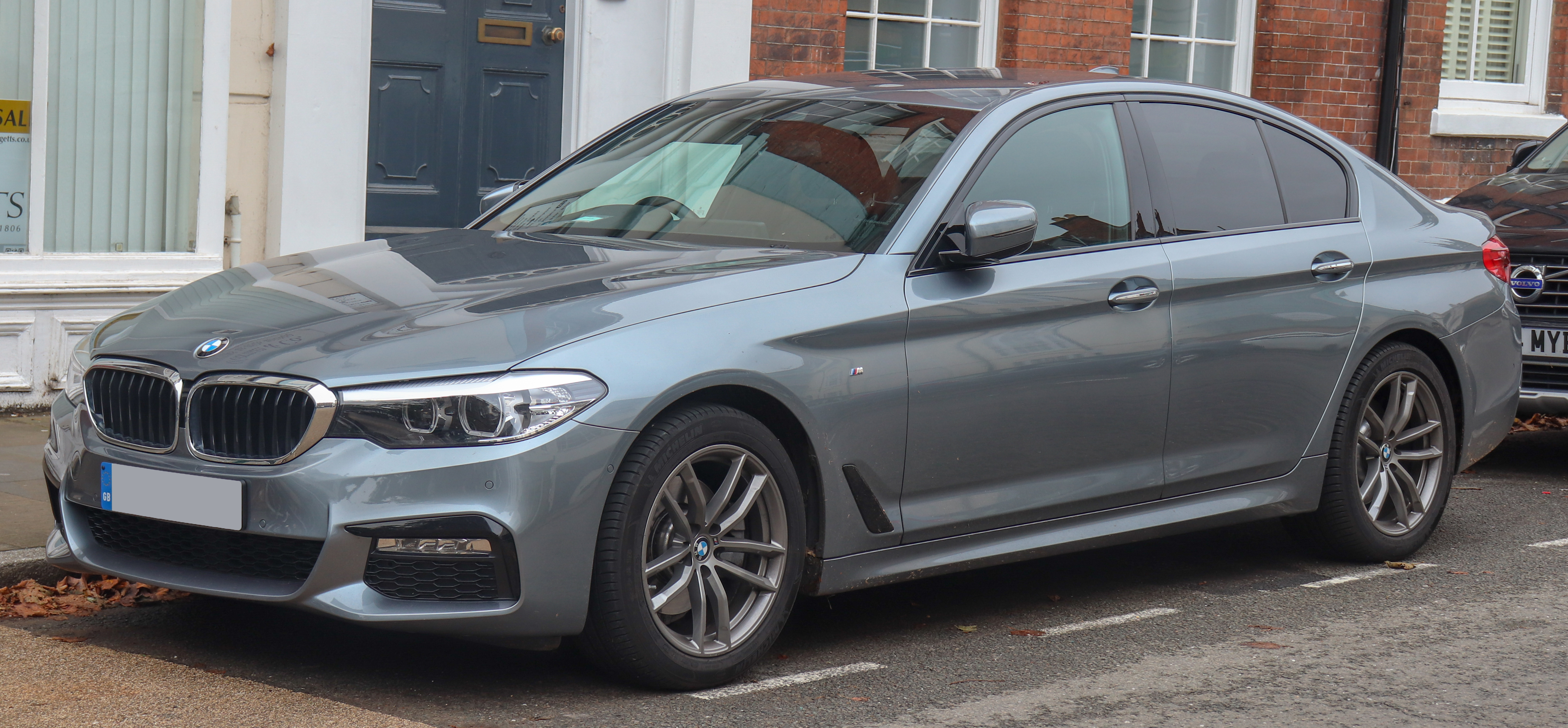 2018 BMW 520d M Sport Automatic 2.0 Taken in Warwick